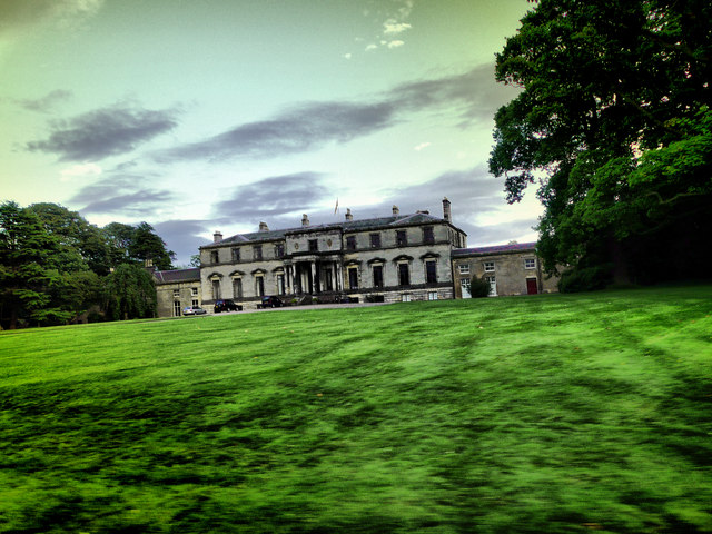 Broomhall house Tucked away on the hilltop of Broomhall estate above Limekilns. Most people won't even know it is there. I am trying for a frontal pic, but not easy.